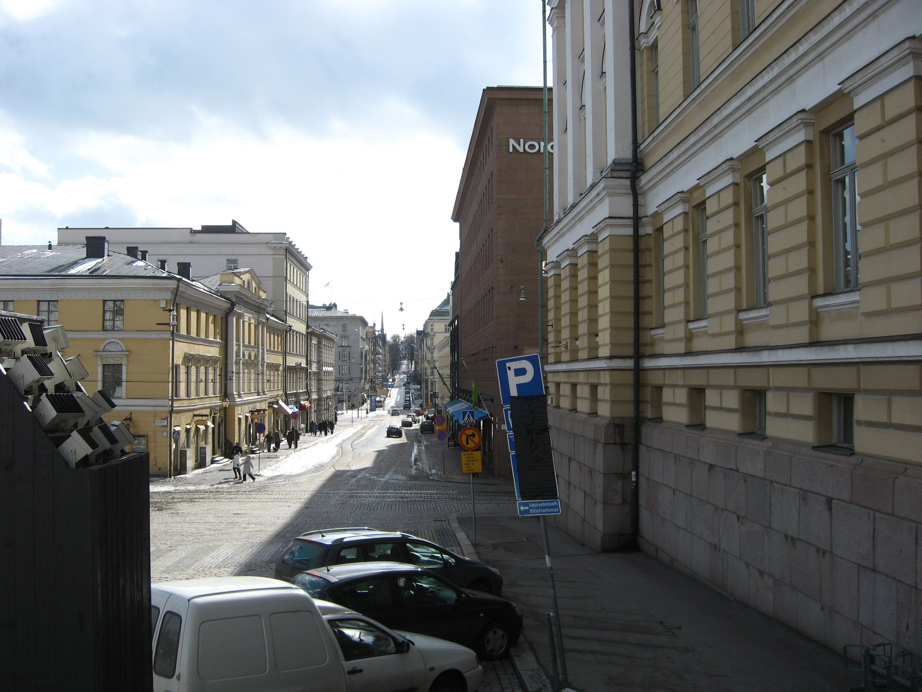 Unioninkatu in Helsinki from Senate Square to South